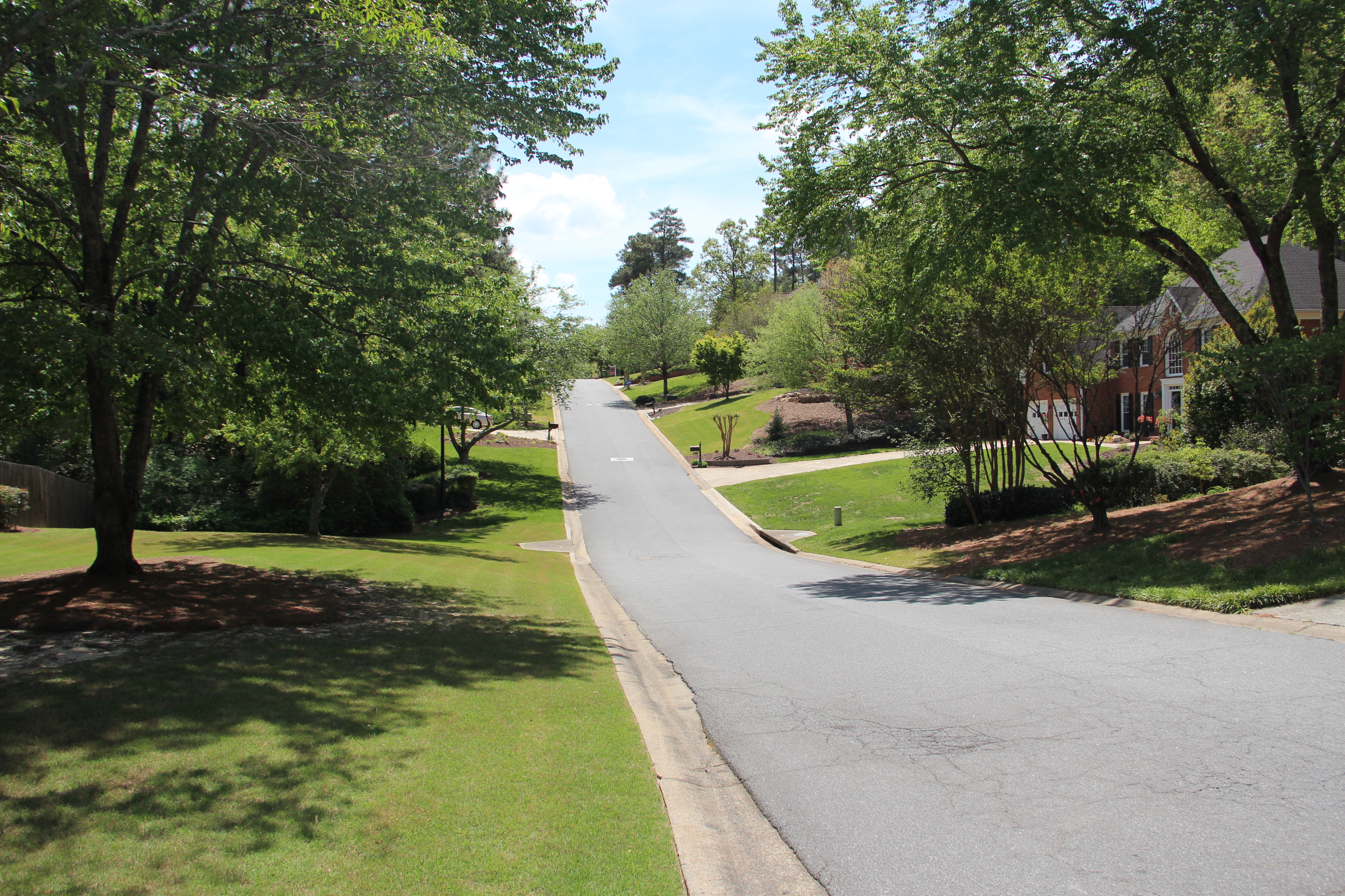 Chadds Lake Drive in Cobb County